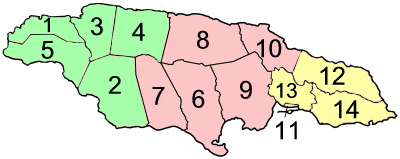 Parishes and counties of Jamaica alternative numeration